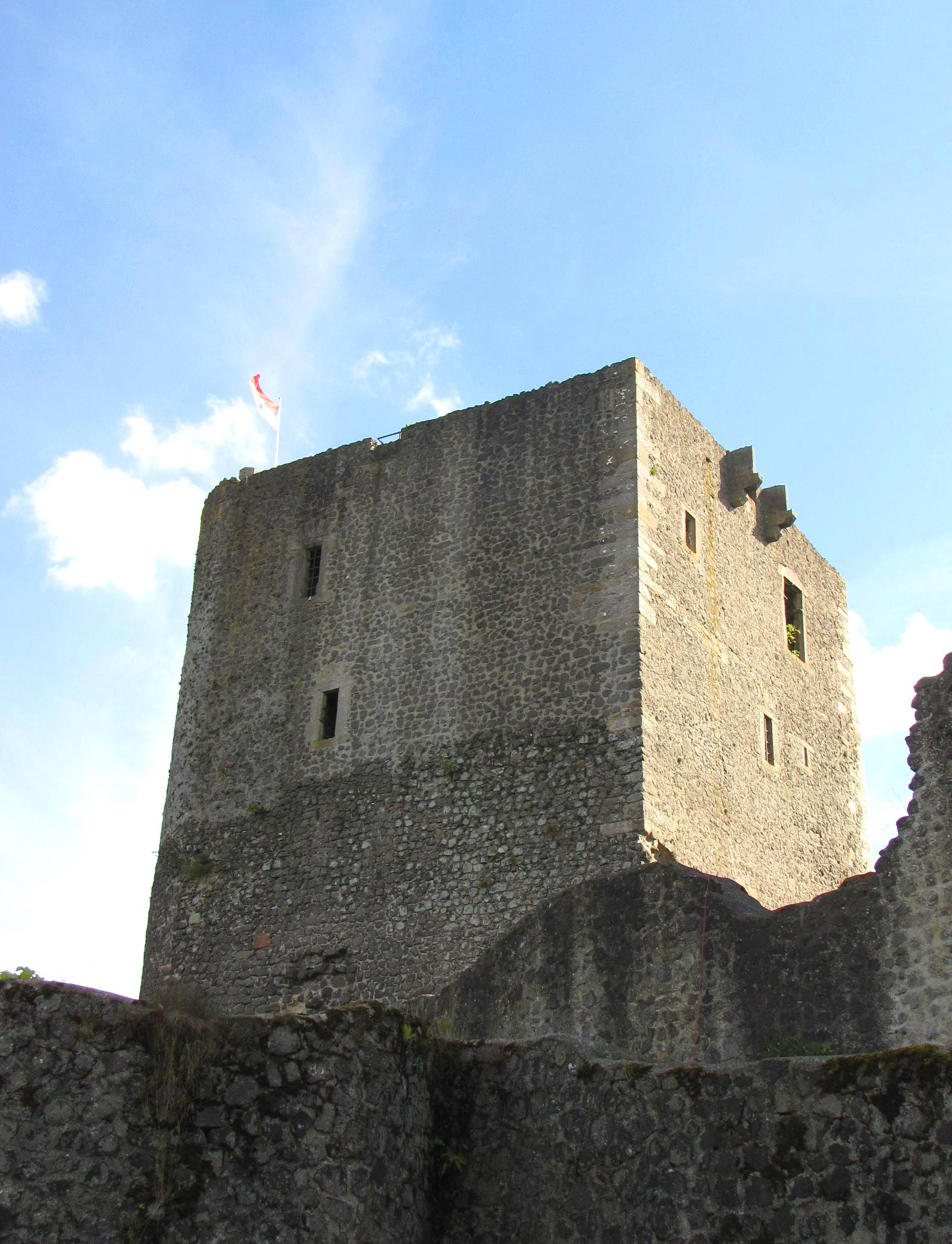 Germany / North Hesse / castle Weidelburg view on the east tower with look-out